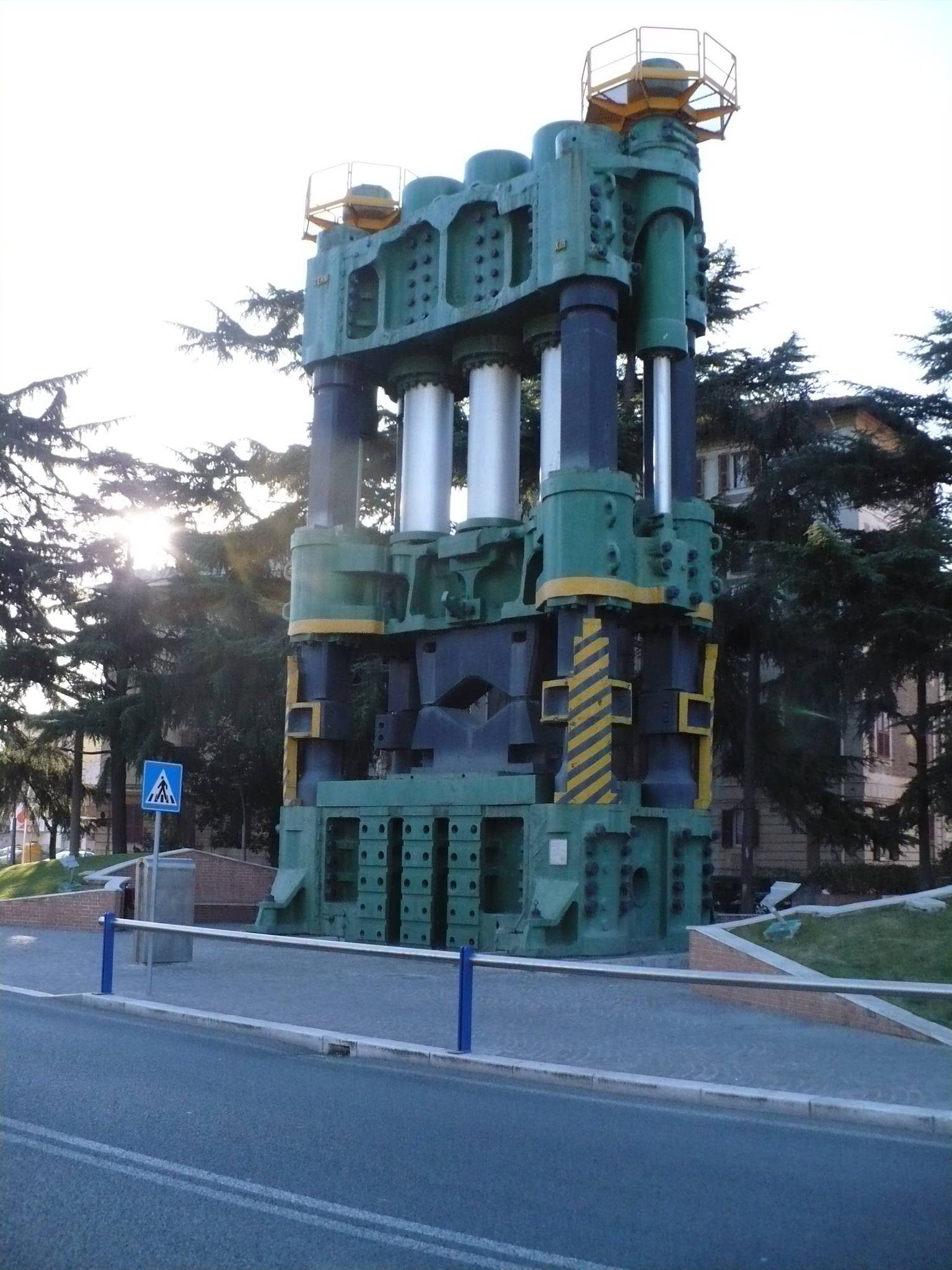 12.000 tons forging press in Terni. Built in 1934 by Davy Brothers of Sheffield. installed in 1935 (year XIII of the "Fascist Era": see the inscription top right), it operated until December 1994